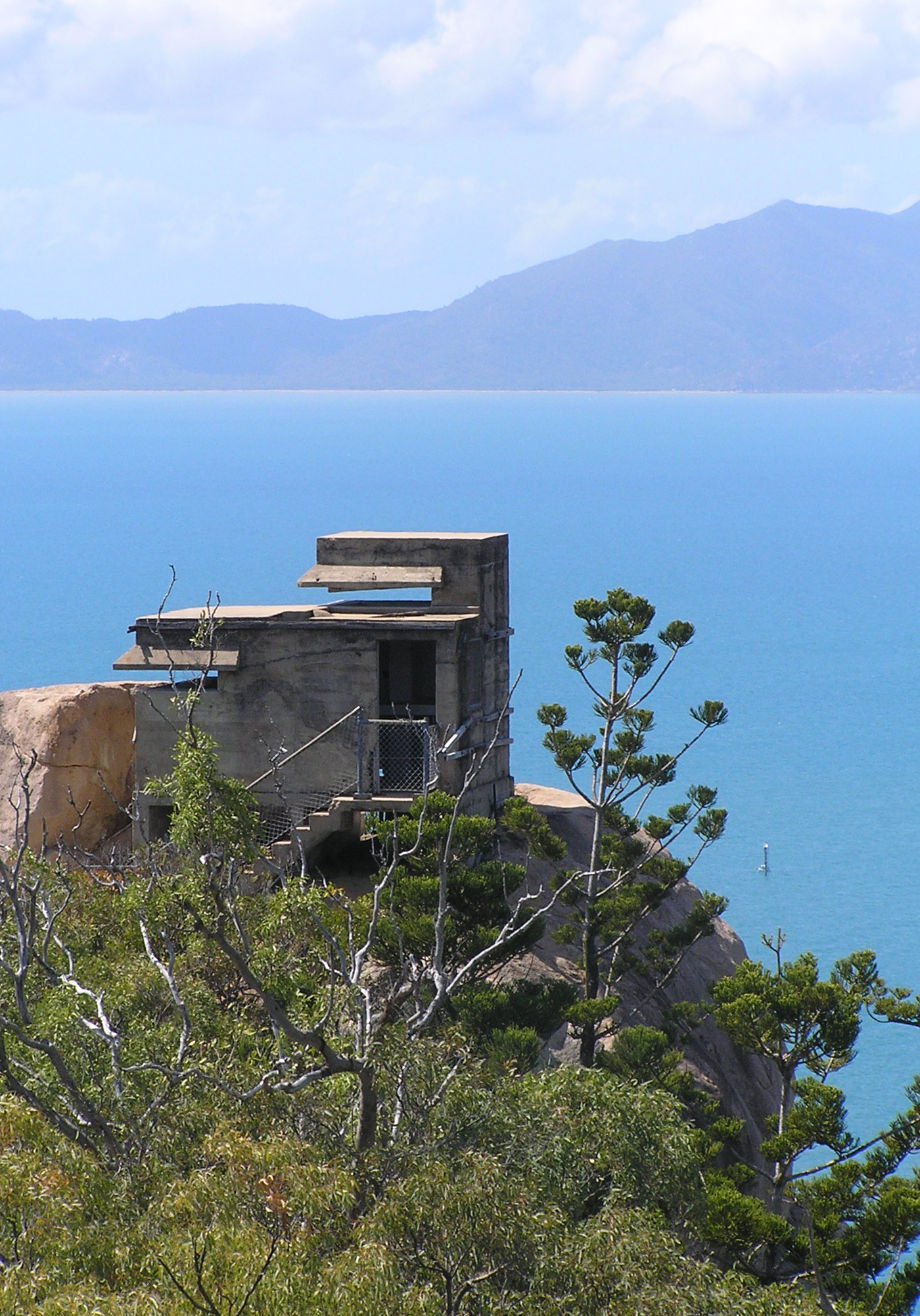 The remains of the observation post at the Magnetic Island coastal Battery. This photo is taken from atop of nearby command post.